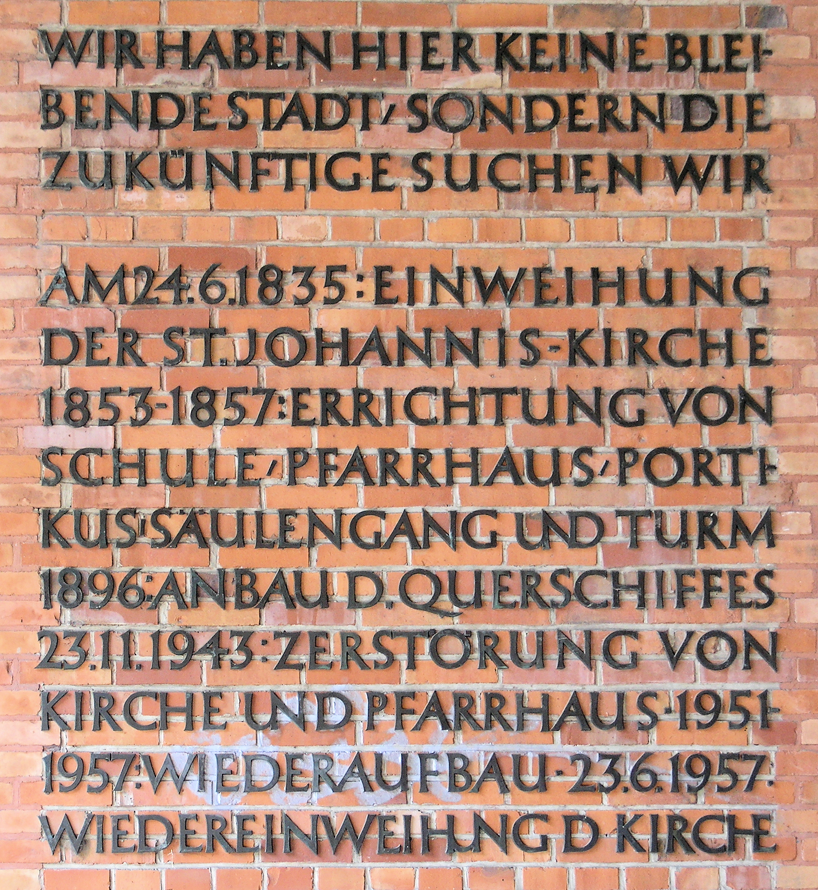 Memorial plaque, St. Johannis Kirche, Alt-Moabit 24, Berlin-Moabit, Germany Koordinate:52°31′29″N 13°20′59″E / 52.52472°N 13.34972°E